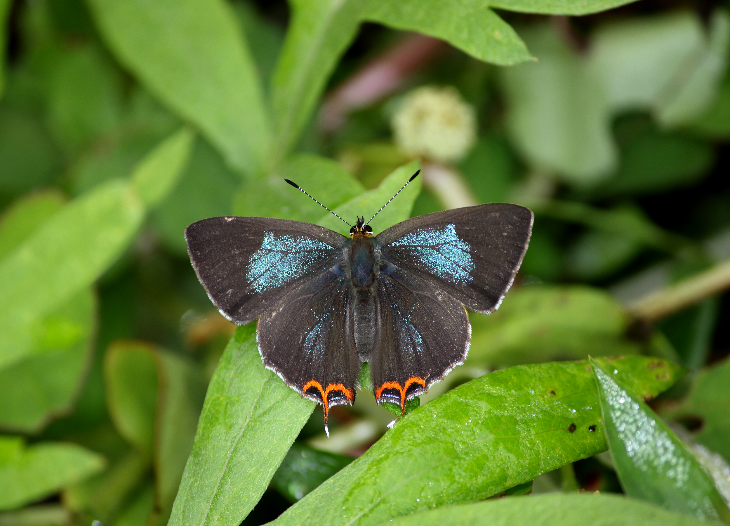 Open wing basking of Heliophorus tamu Kollar, 1844 – Powdery Green Sapphire. Subspecies: Heliophorus tamu tamu Kollar, 1844 – Himalayan Powdery Green Sapphire